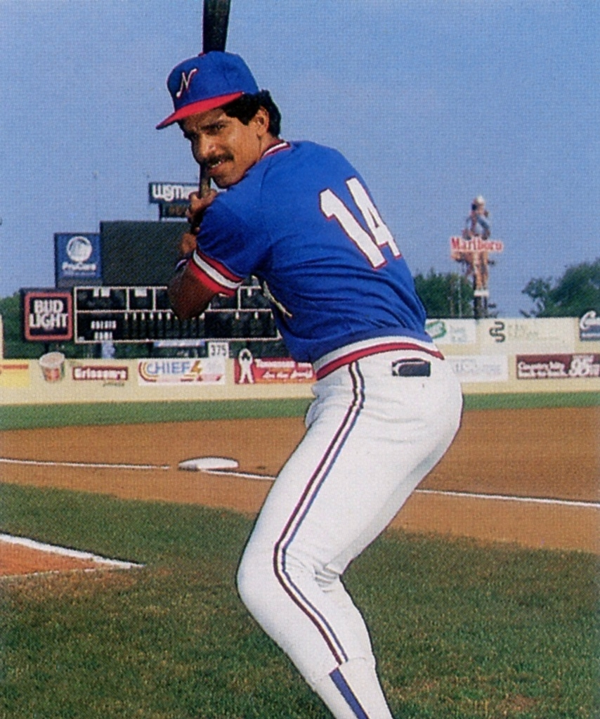 Third baseman Germán Rivera of the 1986 Nashville Sounds Minor League Baseball team of the American Association